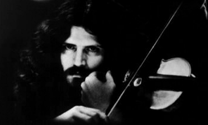 Robbie Steinhardt of Kansas in a 1976 publicity photo